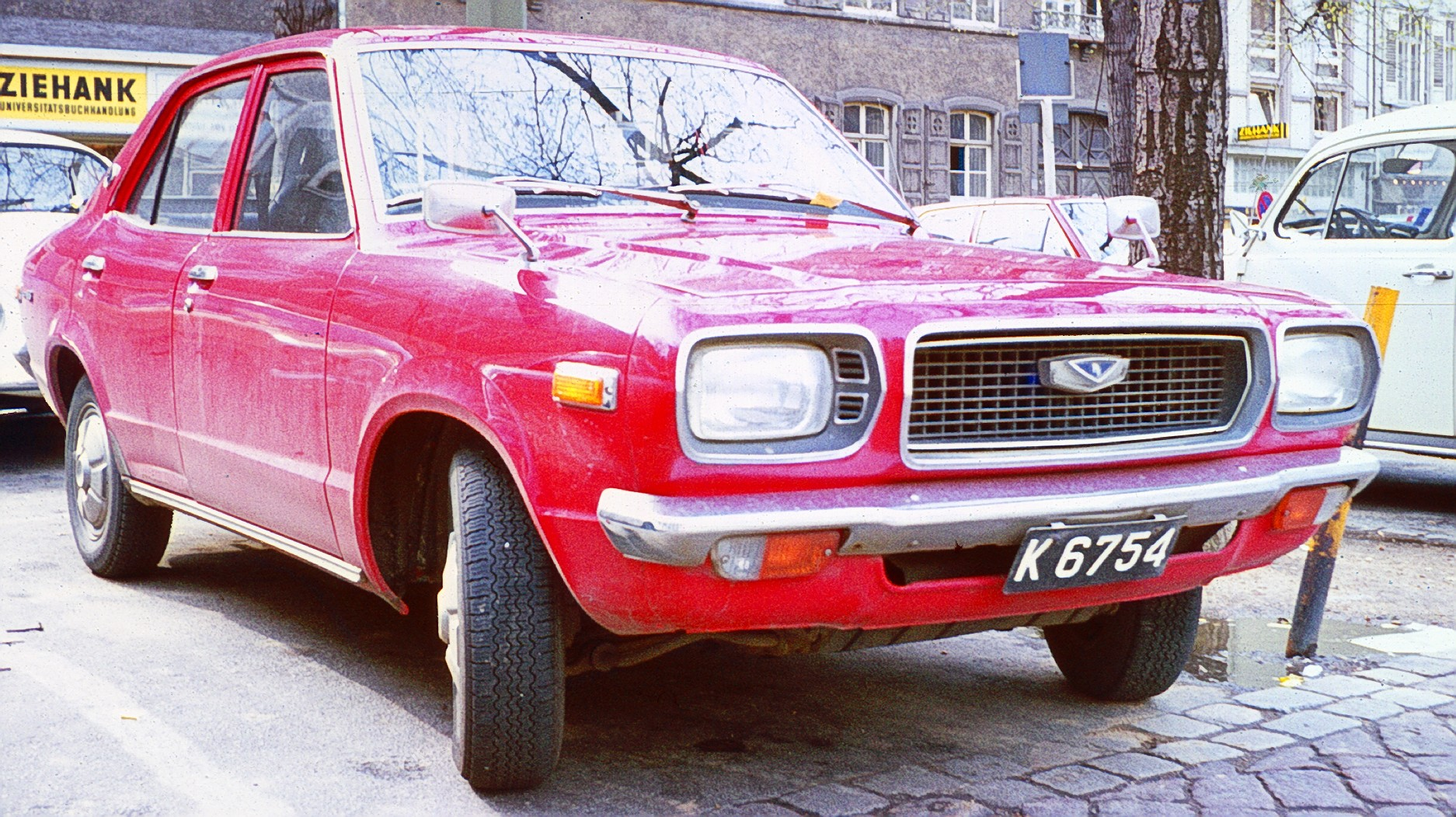 Mazda 818 or Mazda 808 - variously named in different markets - 1974